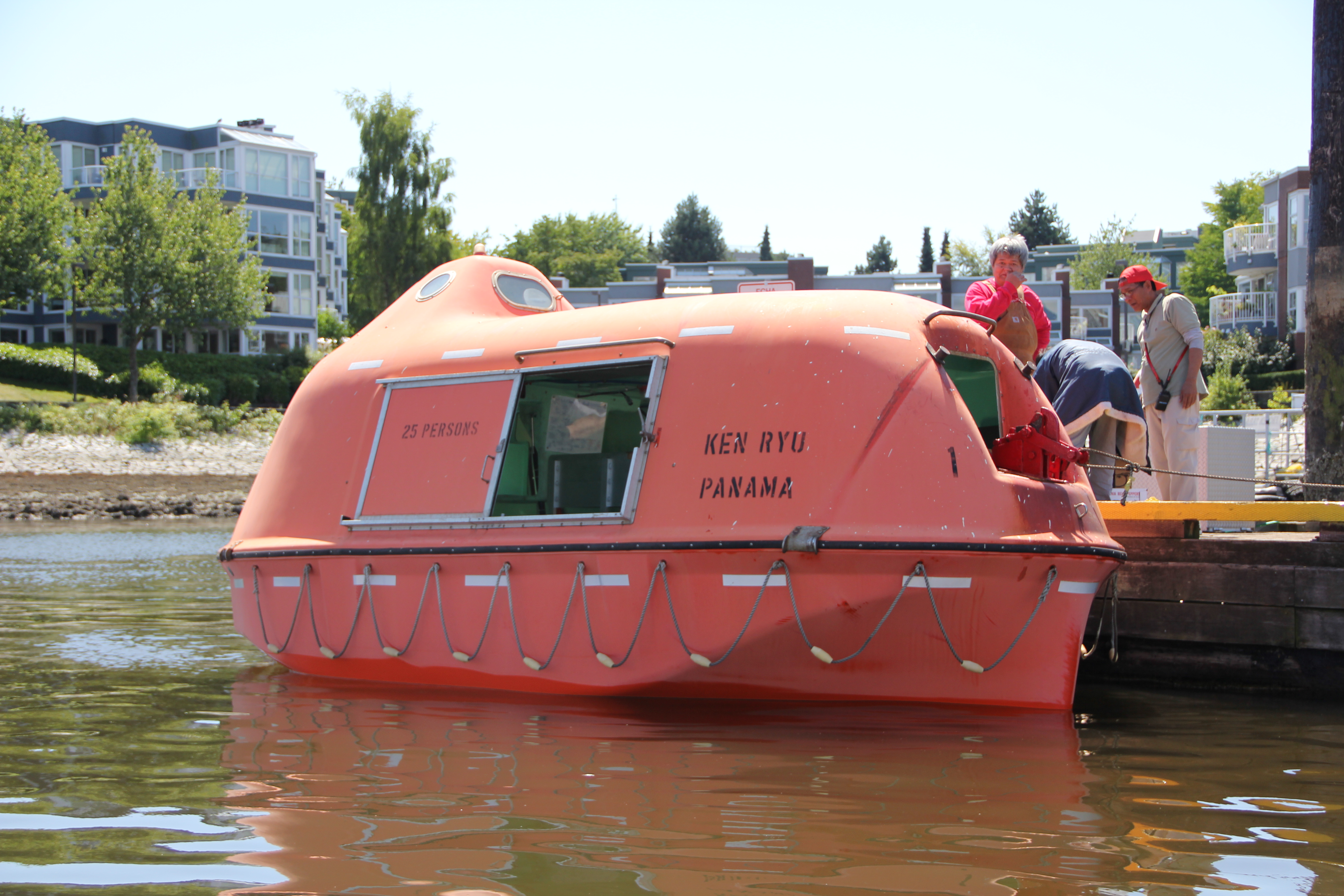 Lifeboat_2